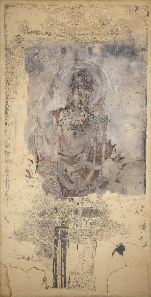 Copy of the wall paintings in the Horyuji Kondo, by Wada Eisaku, Tokyo National Museum, Japan